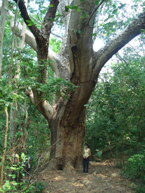 The tree of the 1000 years at The Walter Thilo Deininger National Park, La Libertad, El Salvador